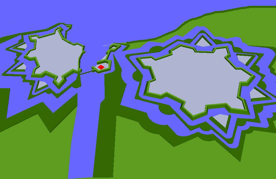 Model of an original French plan to change fortifications of the city to twin city of Delfzijl, from 1811